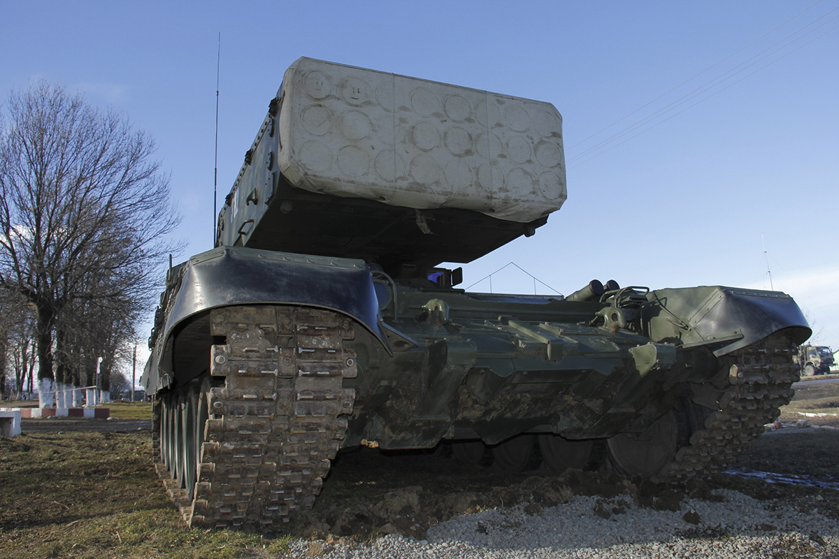 TOS-1A Solntsepyok of 40th NBC Protection Regiment.